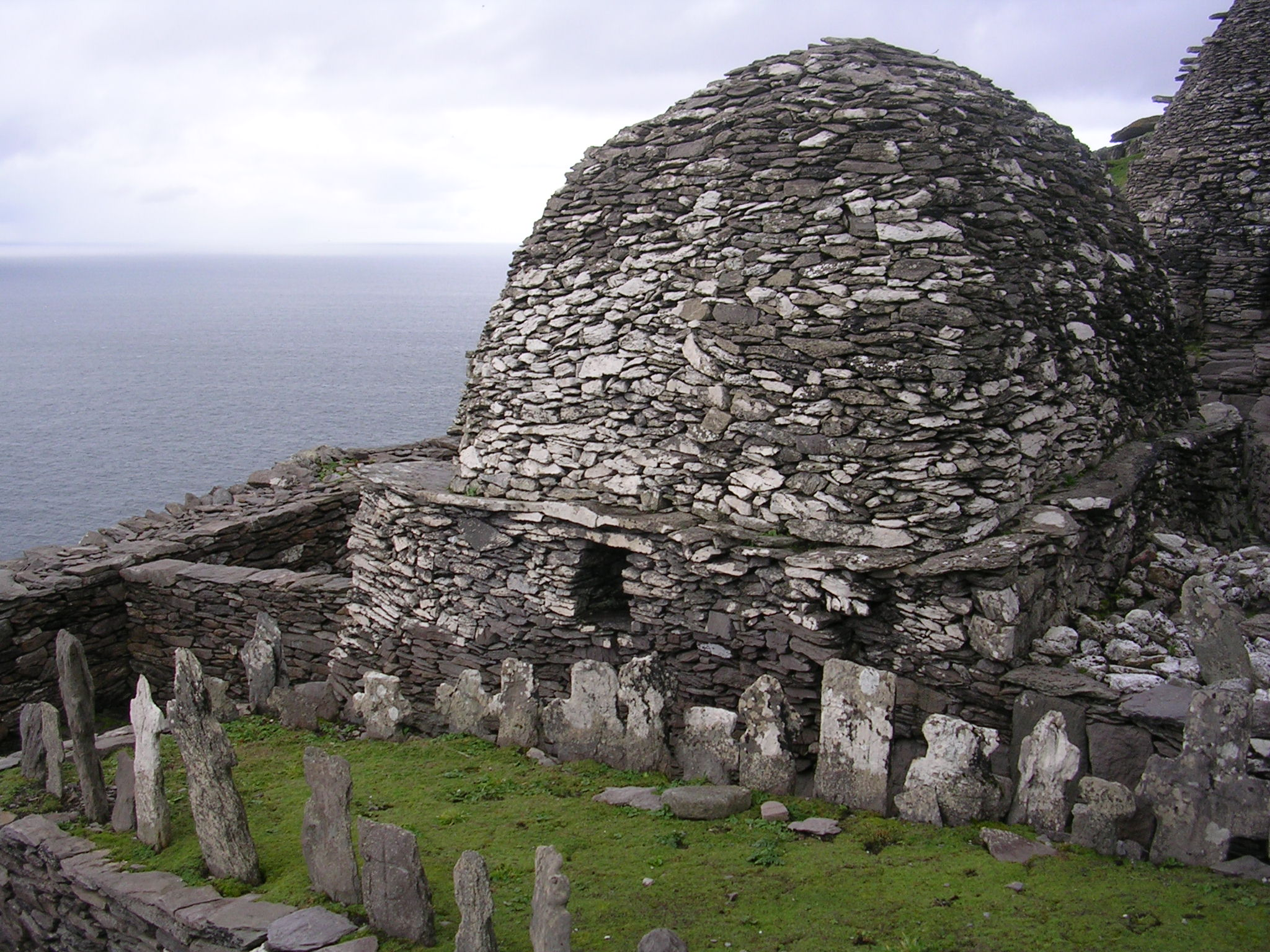 Skellig Michael - grave yard and large oratory